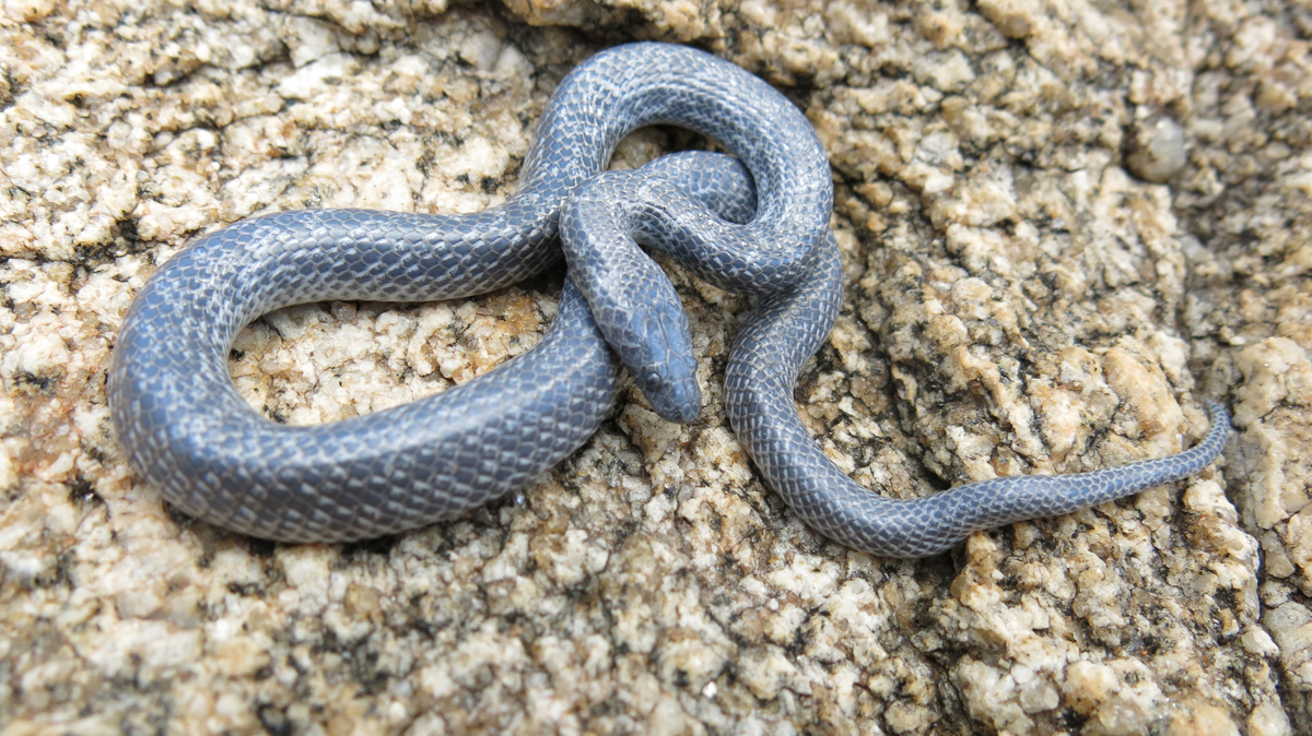 Variegated Wolf Snake, Lycophidion variegatum, Selati, Limpopo